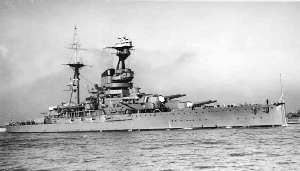 HMS Resolution.